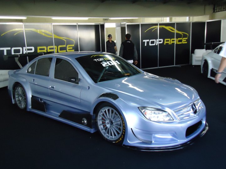 Modelo 2011 del Mercedes-Benz Clase C para el Top Race V6